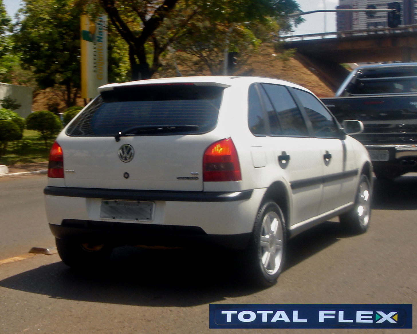 VW Gol Mk3 TotalFlex 1.6 2003, with TotalFlex logo zoom in with Photoshop. This is the first commercial flexible-fuel vehicle mass produced and sold in Brazil, it is capable of running with either gasoline (E20-E25) or ethanol (E100), or any mix of both.